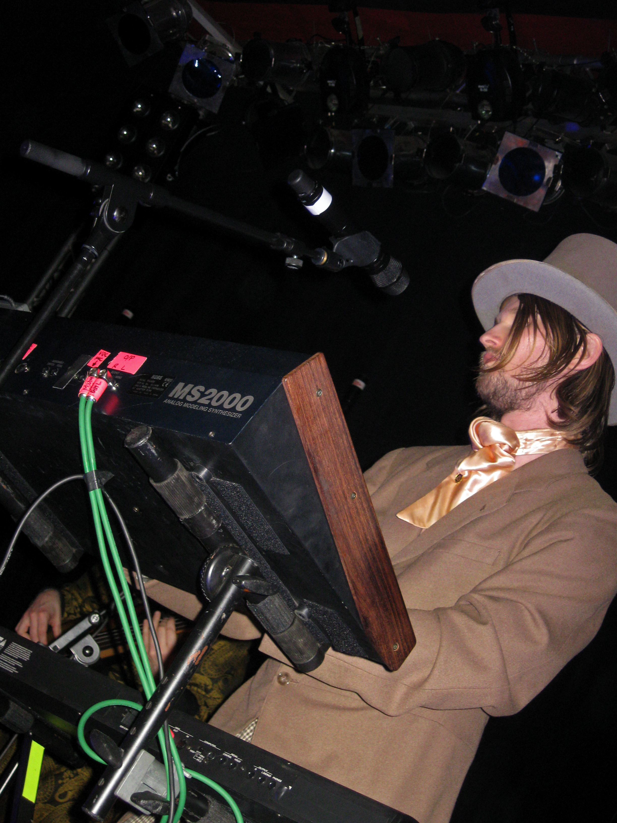 Torbjørn Brundtland of Röyksopp playing live at Berlin (2009).